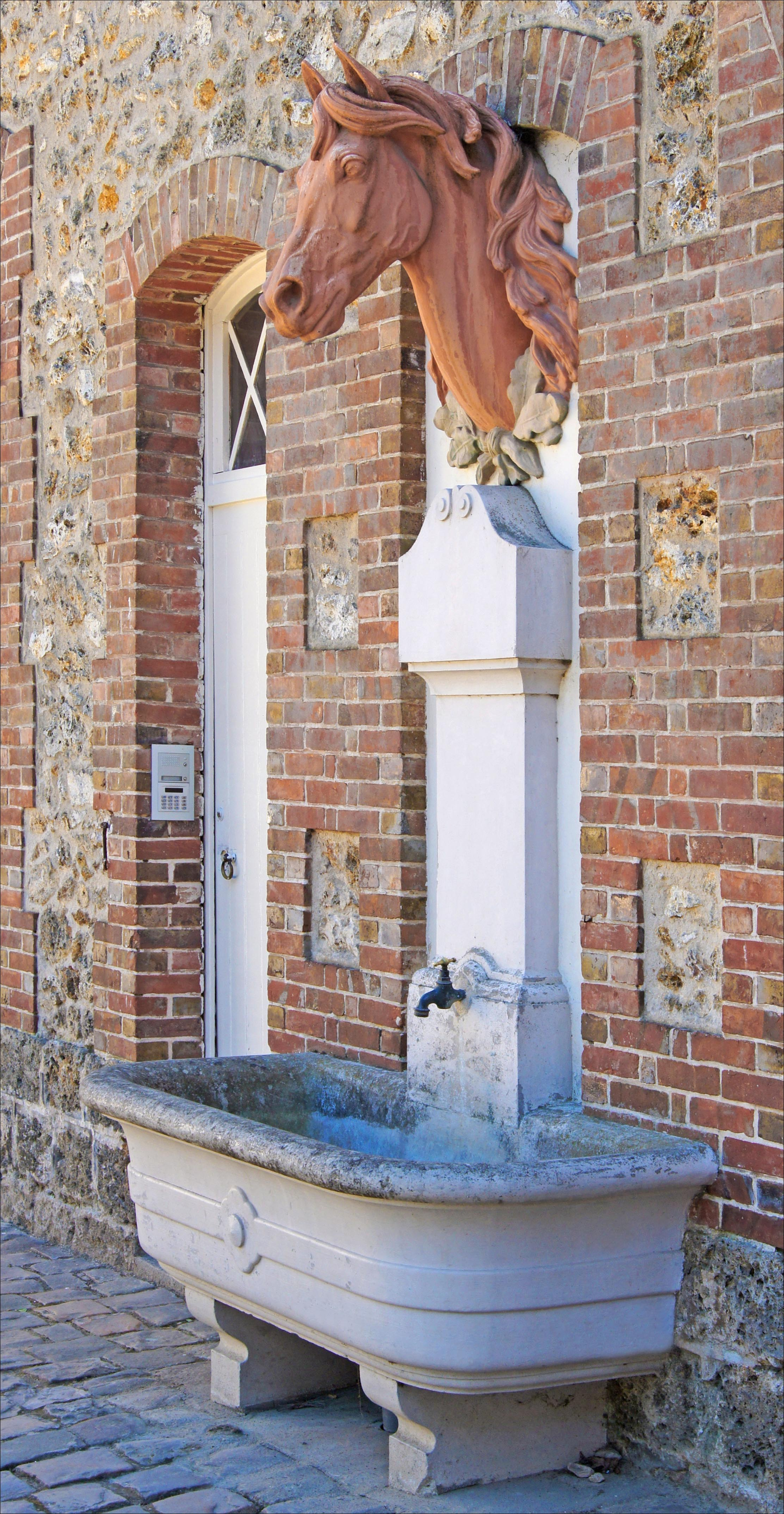 Château de Breteuil. Un abreuvoir extérieur pour les chevaux.